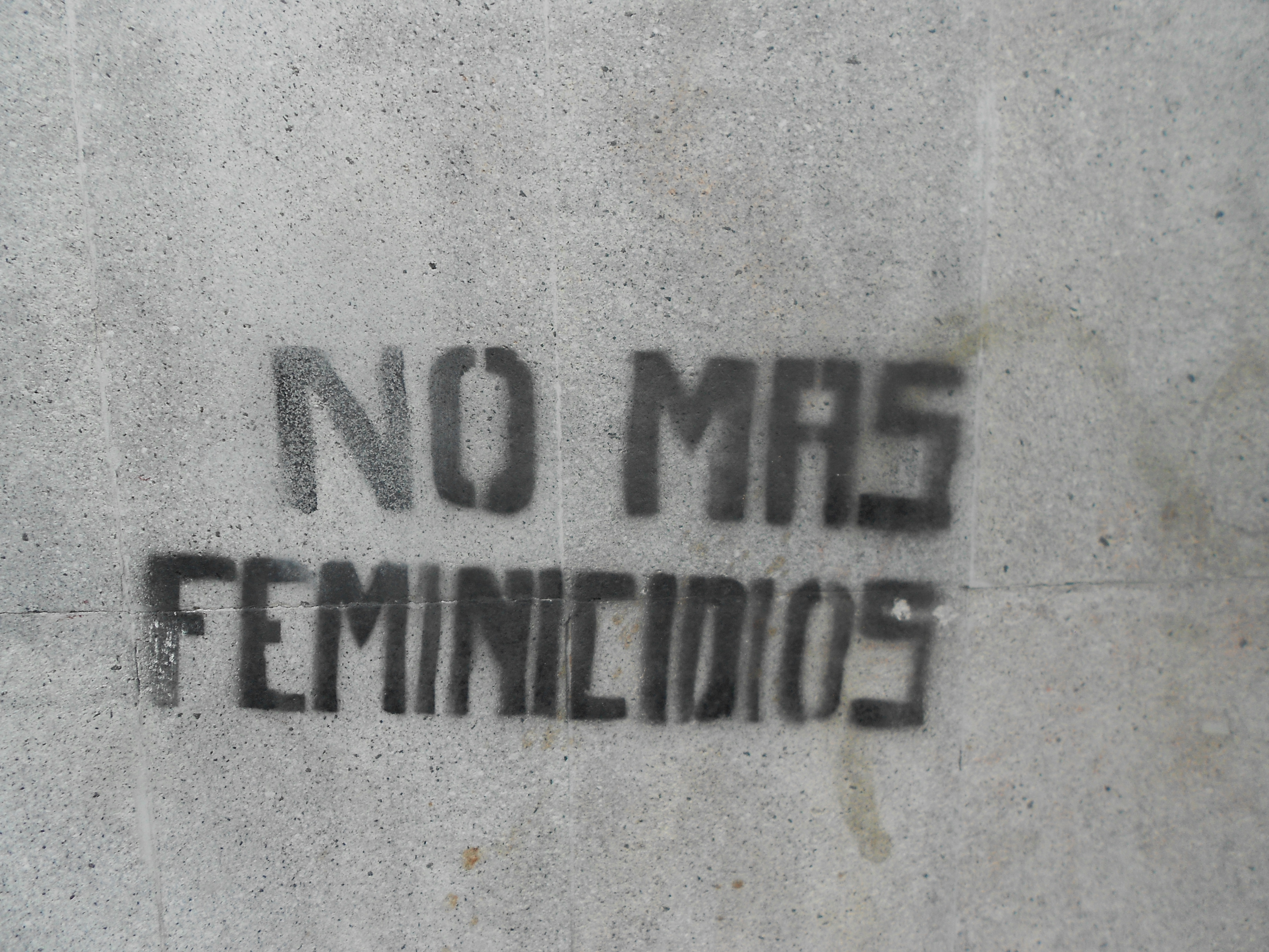 Graffiti in Mexico City, 2011. It reads: No Mas Feminicidios (No more murder of women).